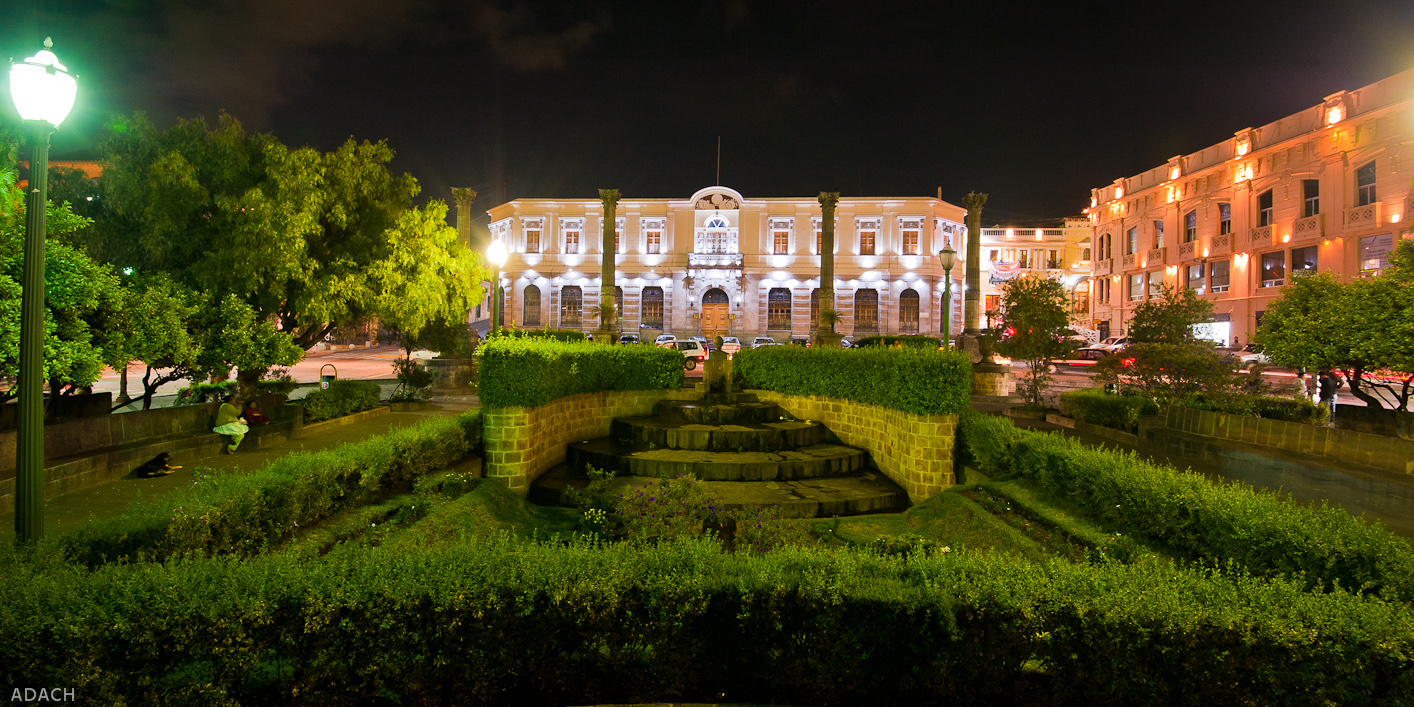 Parque Central, Quetzaltenango, Guatemala, at night